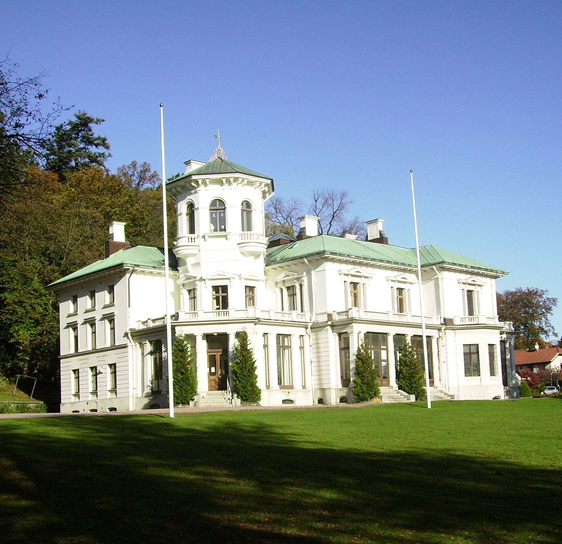 Picture of mansion Överås in Göteborg